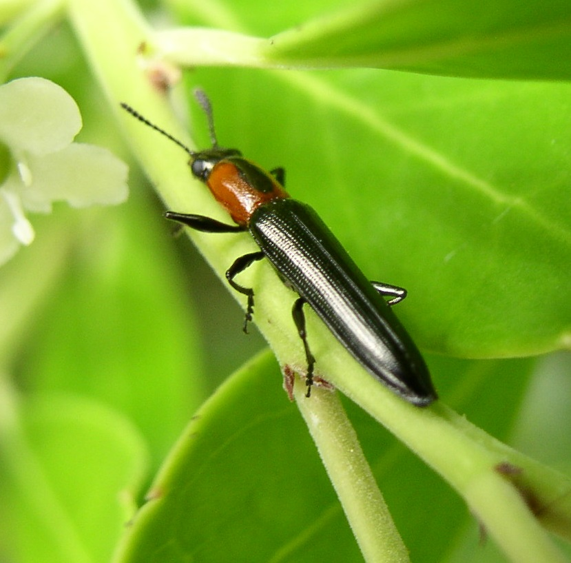 Lizard beetle, Acropteroxys gracilis. Size: +/- 8 mm. Churchville Nature Center, Bucks County, Pennsylvania, USA.